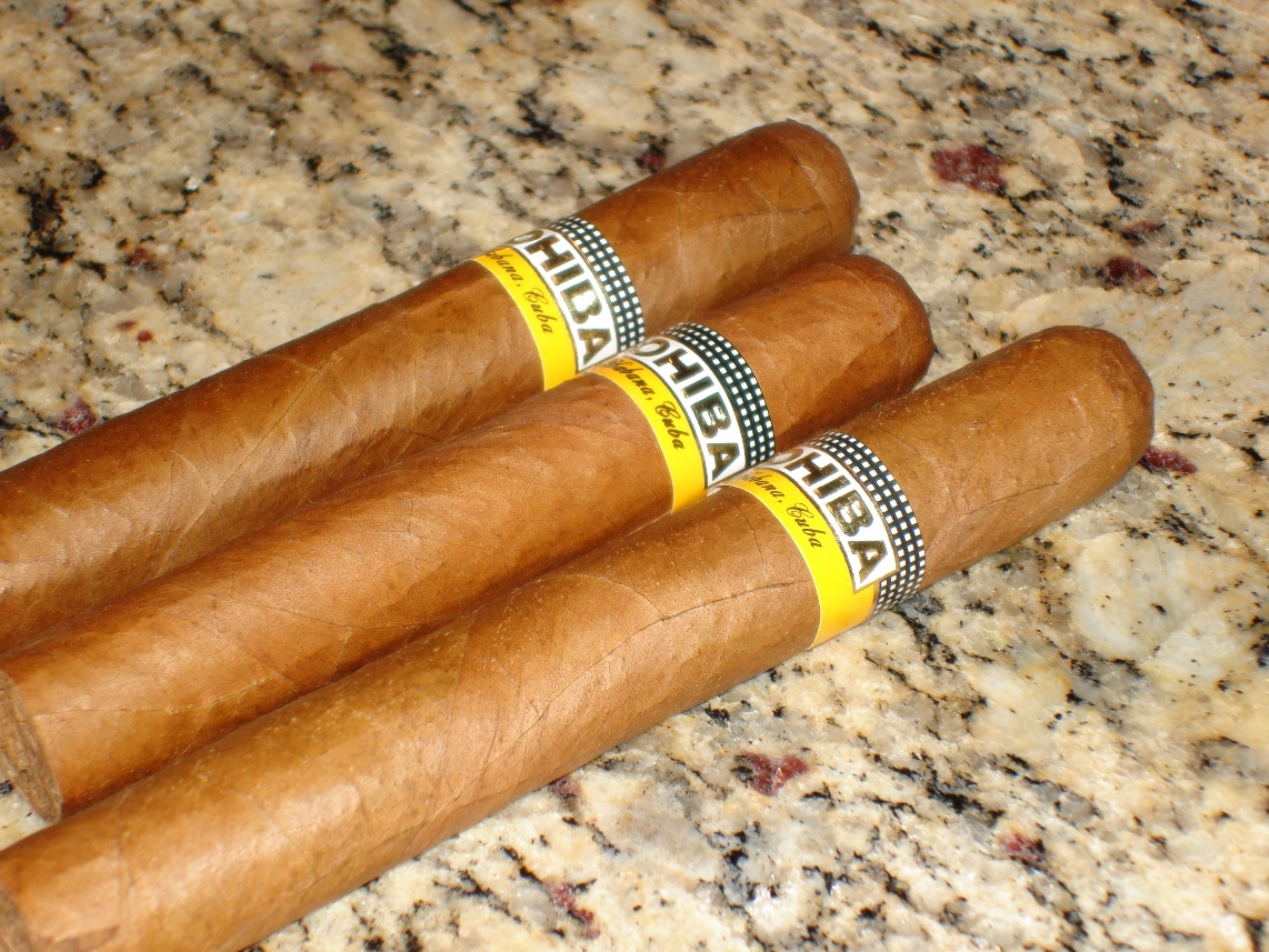 Three Cuban Cohiba premium cigars